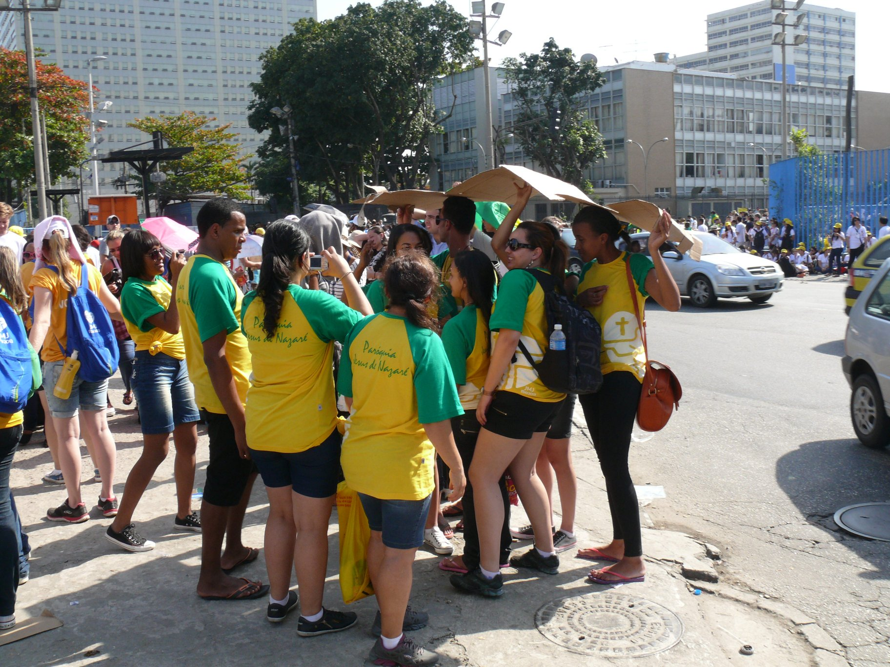 The 2013 World Youth Day in Rio de Janeiro (Brésil).